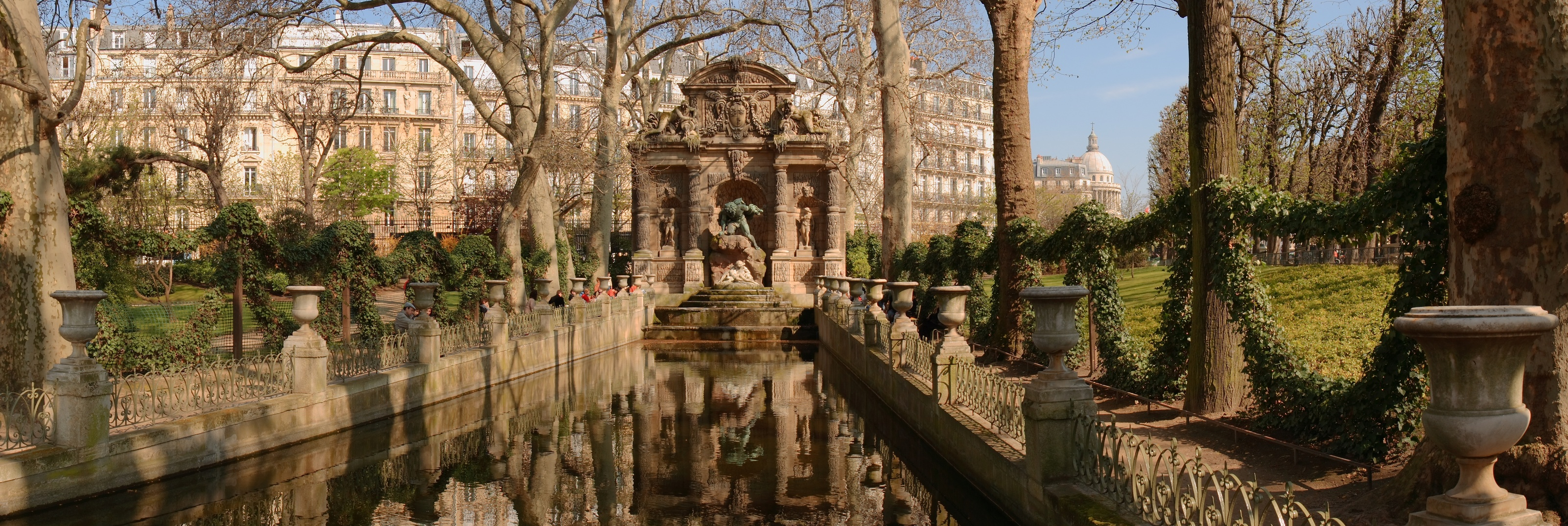 The Fountain "Marie de Médicis", in the garden of Luxembourg, Paris. In the background, to the right side, the dome of the Pantheon of Paris. This panorama is made of three pictures stitched with Hugin.